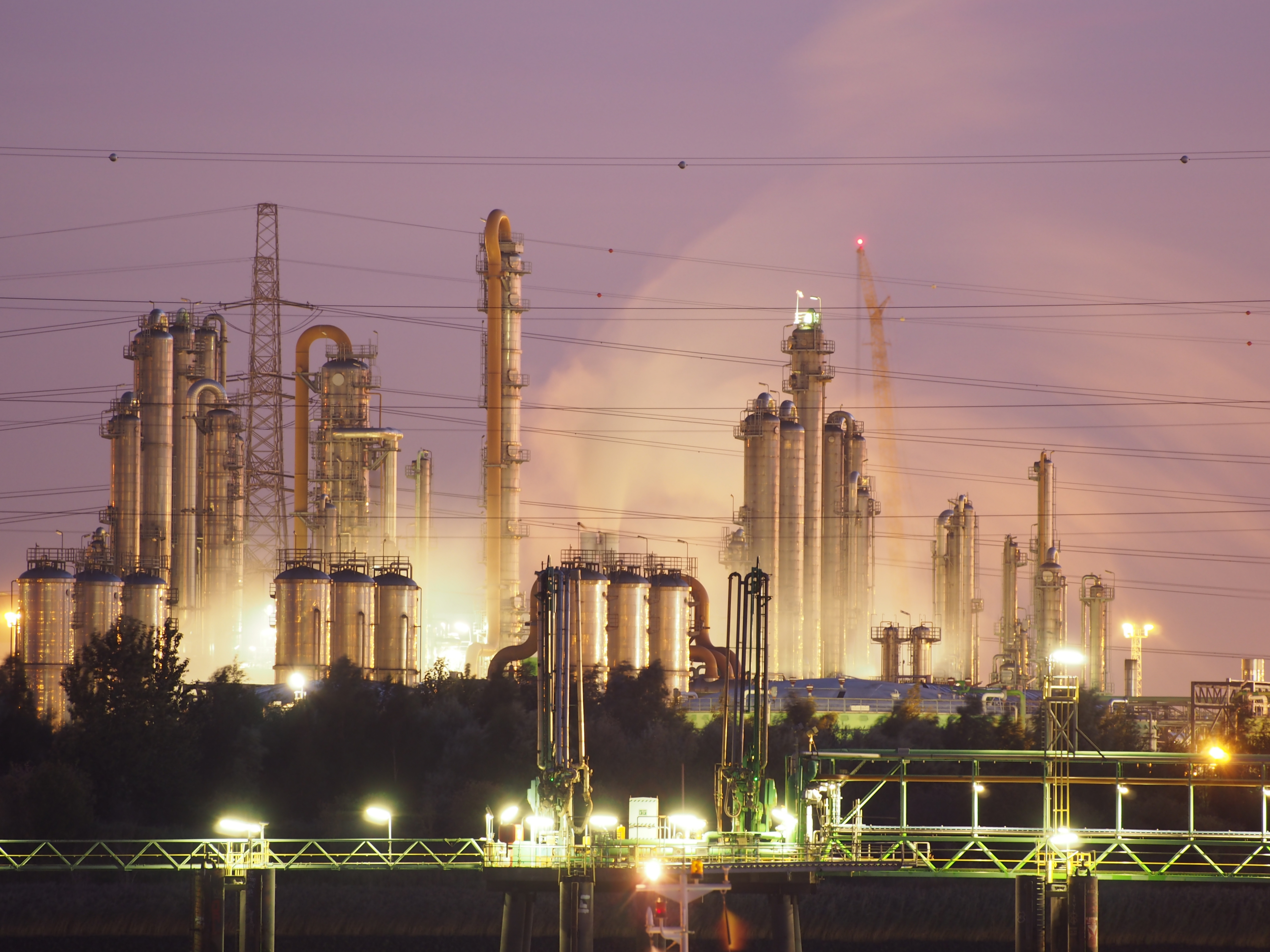 Photographed at Port of Antwerp, Belgium.